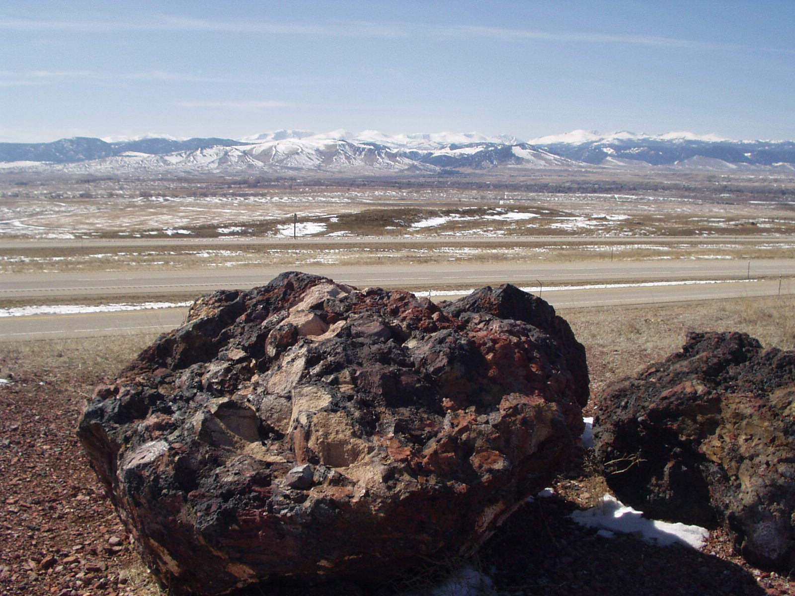 East of Buffalo, Wyoming -- view of the Bighorn Mountains.